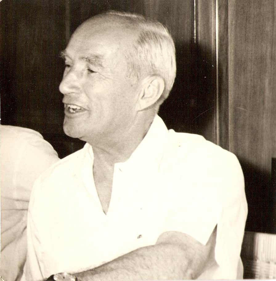 Simcha Golan